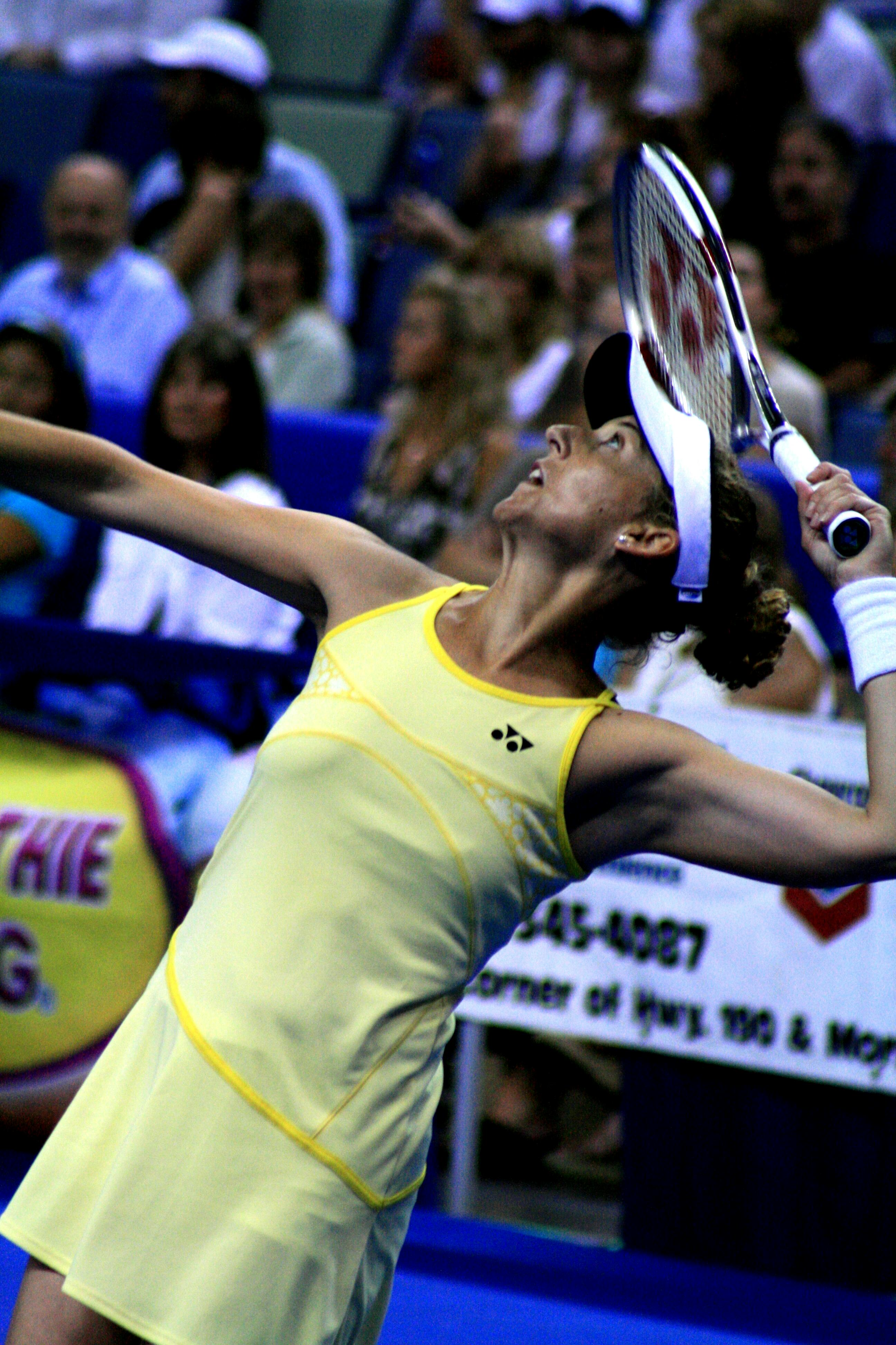 Monica Seles at a charity event in 2007, playing against Martina Navratilova, in New Orlenas